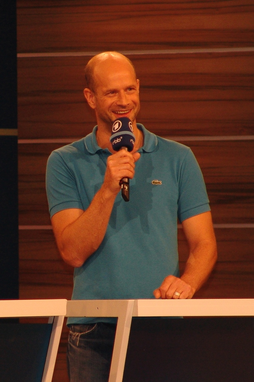 Benjamin Morik interviewed on the IFA 2011 in Berlin